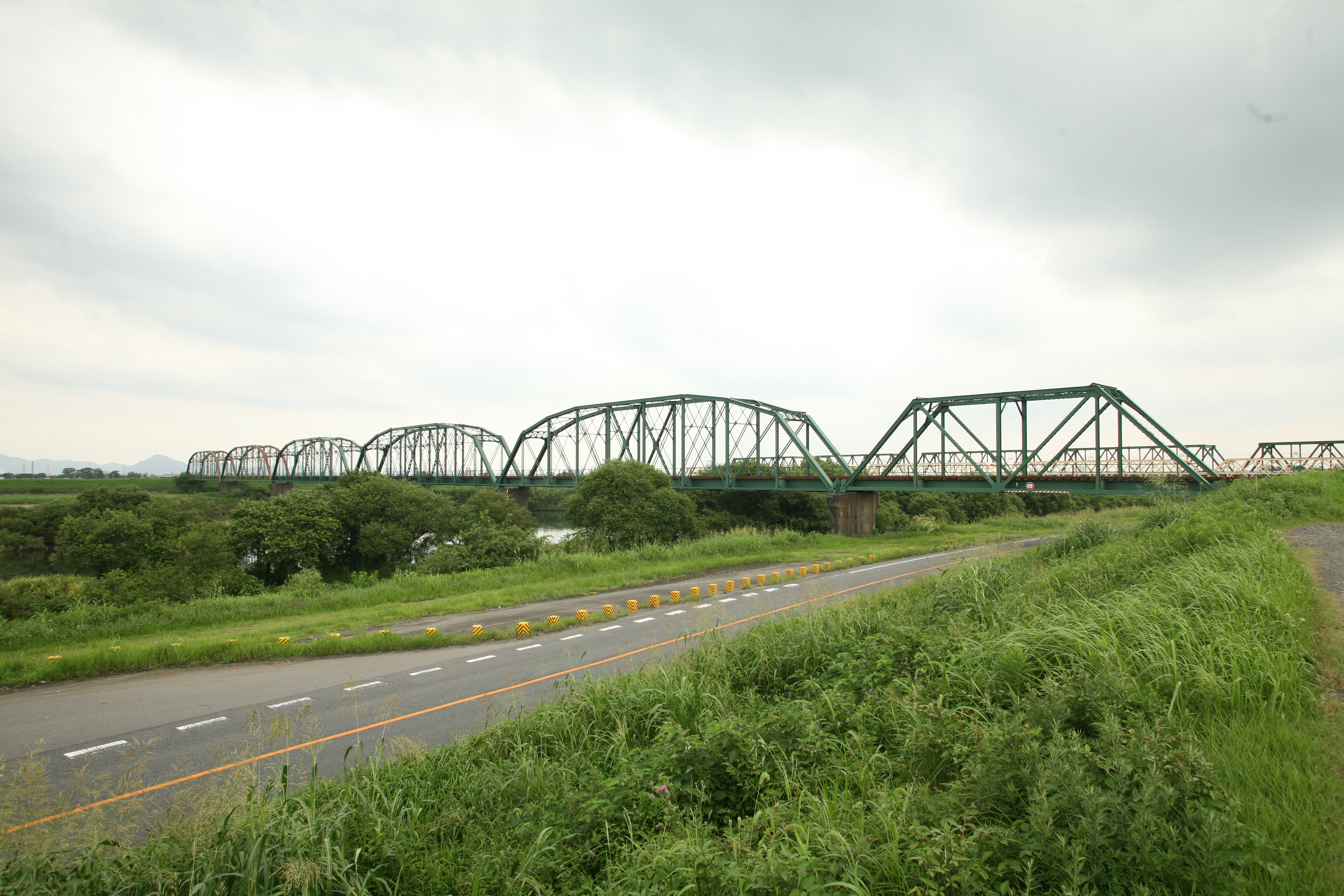 The Ibigawa river bridge,Tarumi Ry.,manufactured by A.and P.Roberts (later merged into American Bridge)in 1900 and Kawasaki in 1916.